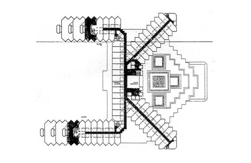 Layout of Hyatt Regency Delhi